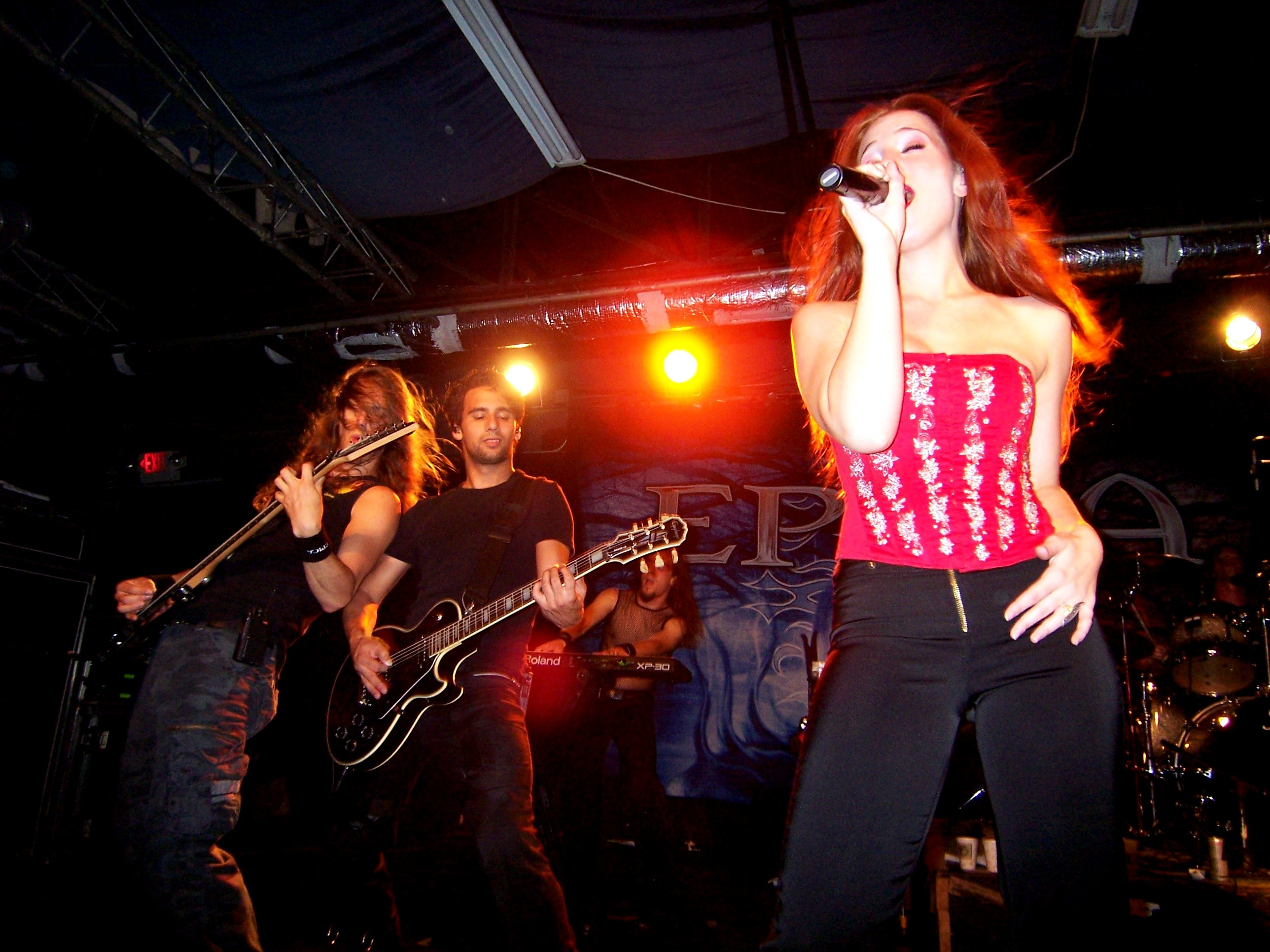 Epica playing for a small club crowd in 2007